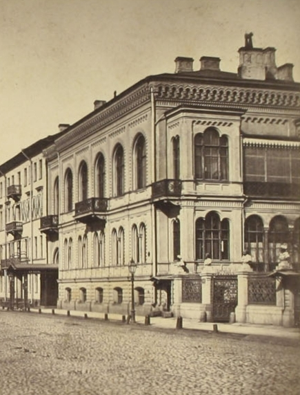 Horse-Guards Street in St. Petersburg. Photo-studio of A.Lorens, St-Petersburg. 1870s. Fragment - a mansion of Kochubey.